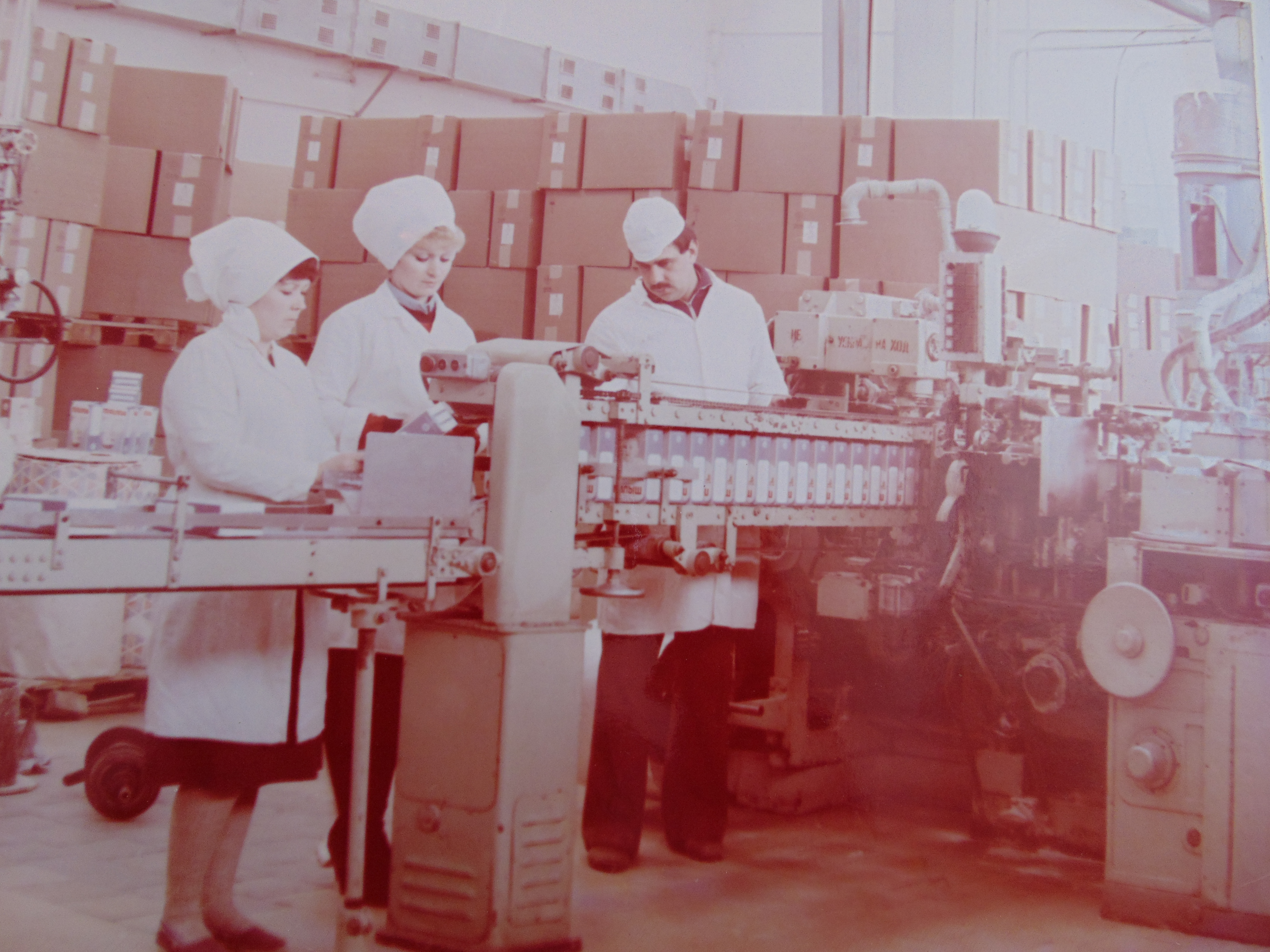 Процес виробництва сухих молочних сумішей